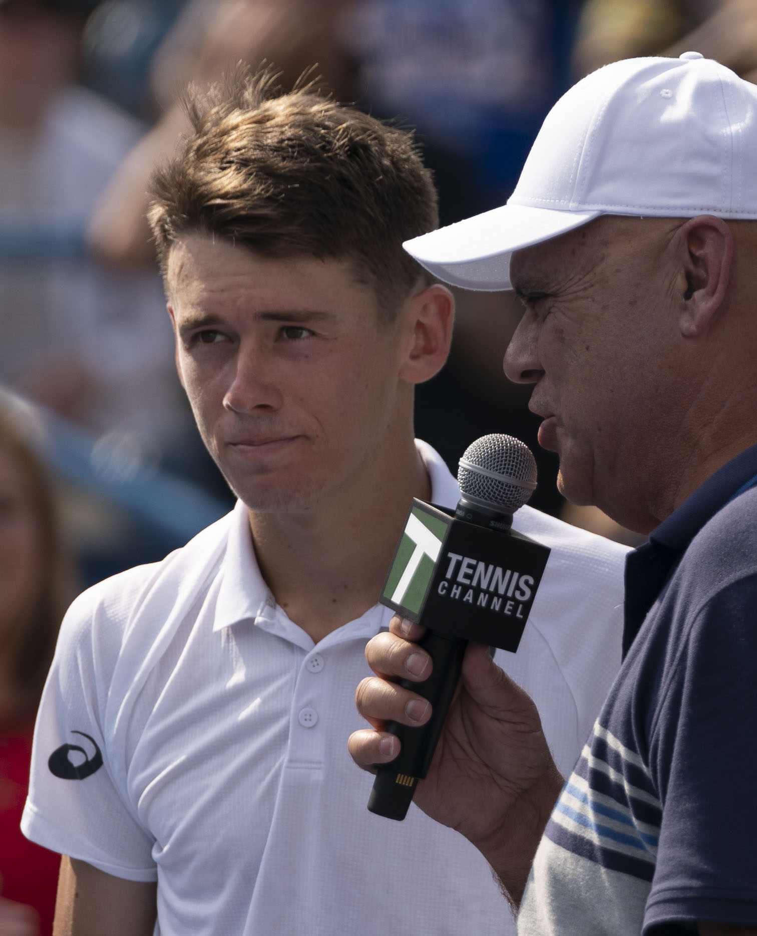 2018 Citi Open Tennis Finals